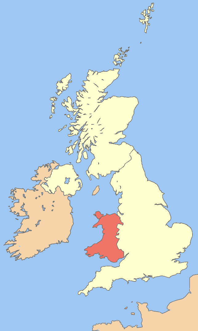 Image of Wales in the UK